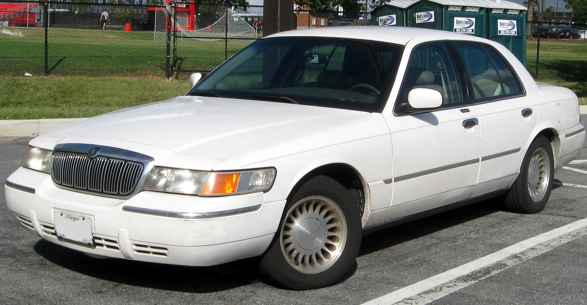 1998-2002 Mercury Grand Marquis photographed in College Park, Maryland, USA.